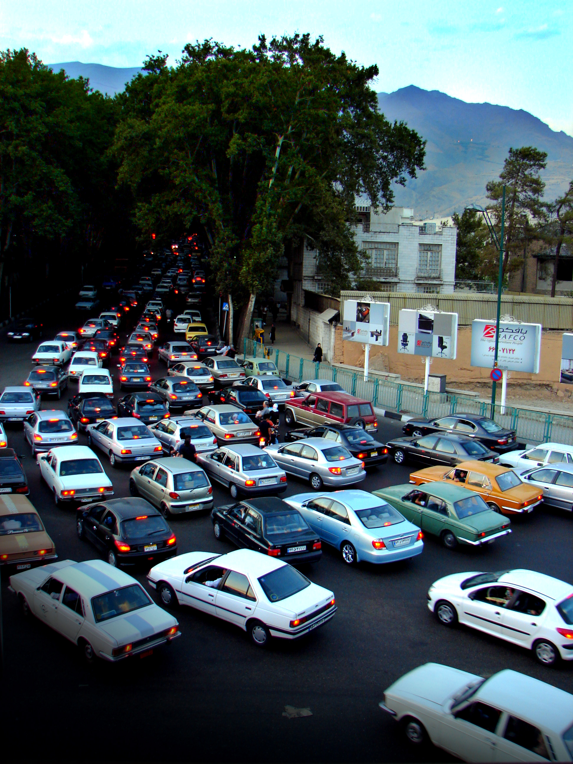 Here is Vali-e Asr street, shoot from top of Parkway bridge, at sunset time. The background mountains are northern mountains of Tehran